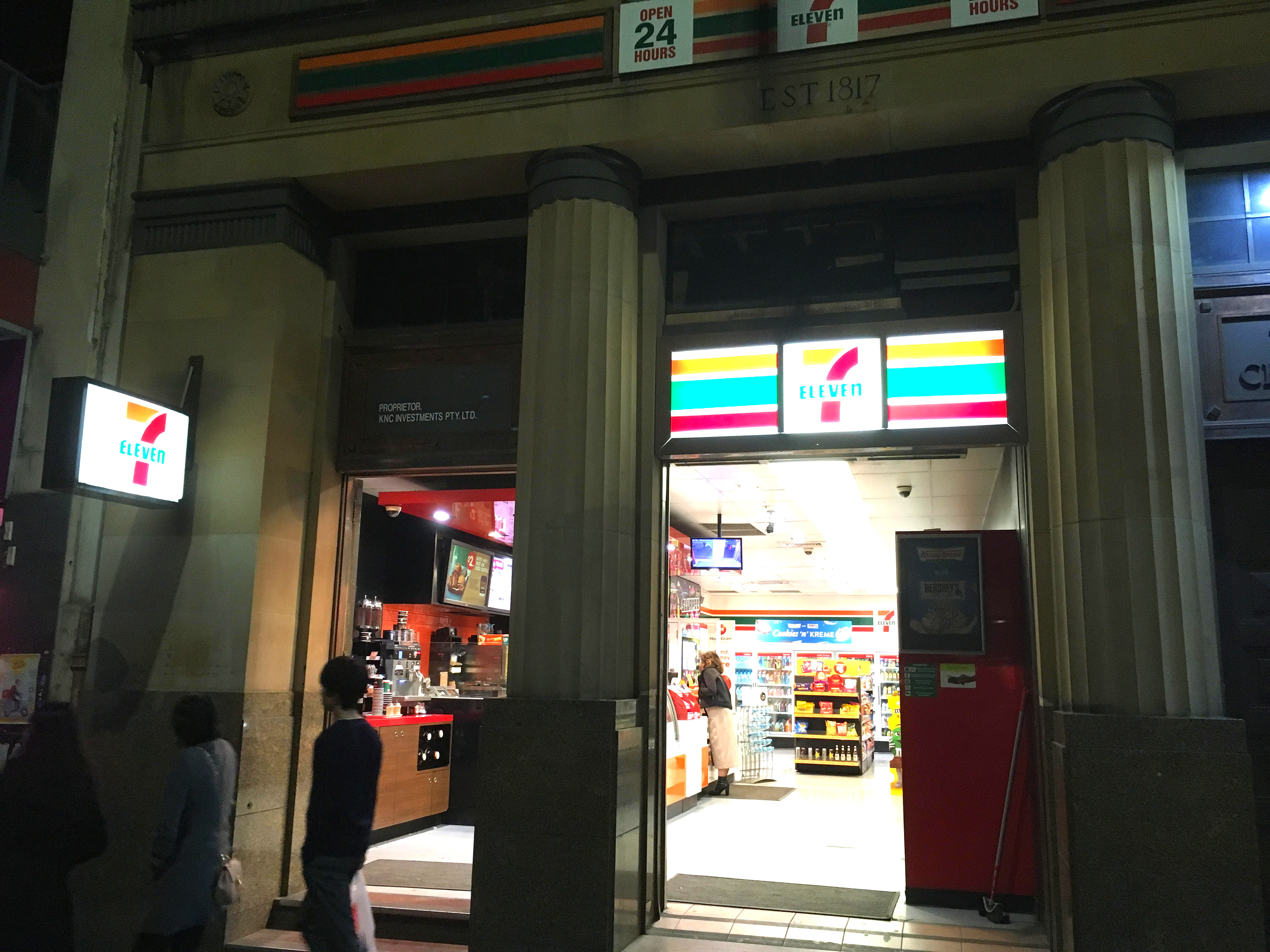 7 Eleven at 190 Bourke Street, Melbourne, VIC, 3000, Australia